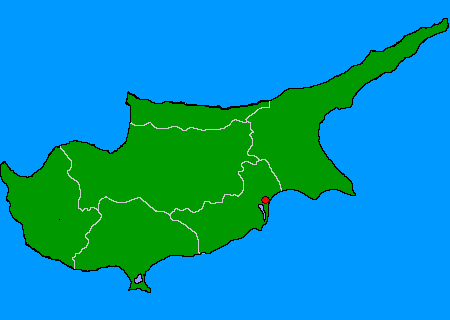 my creation